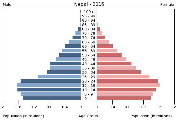 The population pyramid of Nepal illustrates the age and sex structure of population and may provide insights about political and social stability, as well as economic development. The population is distributed along the horizontal axis, with males shown on the left and females on the right. The male and female populations are broken down into 5-year age groups represented as horizontal bars along the vertical axis, with the youngest age groups at the bottom and the oldest at the top. The shape of the population pyramid gradually evolves over time based on fertility, mortality, and international migration trends.